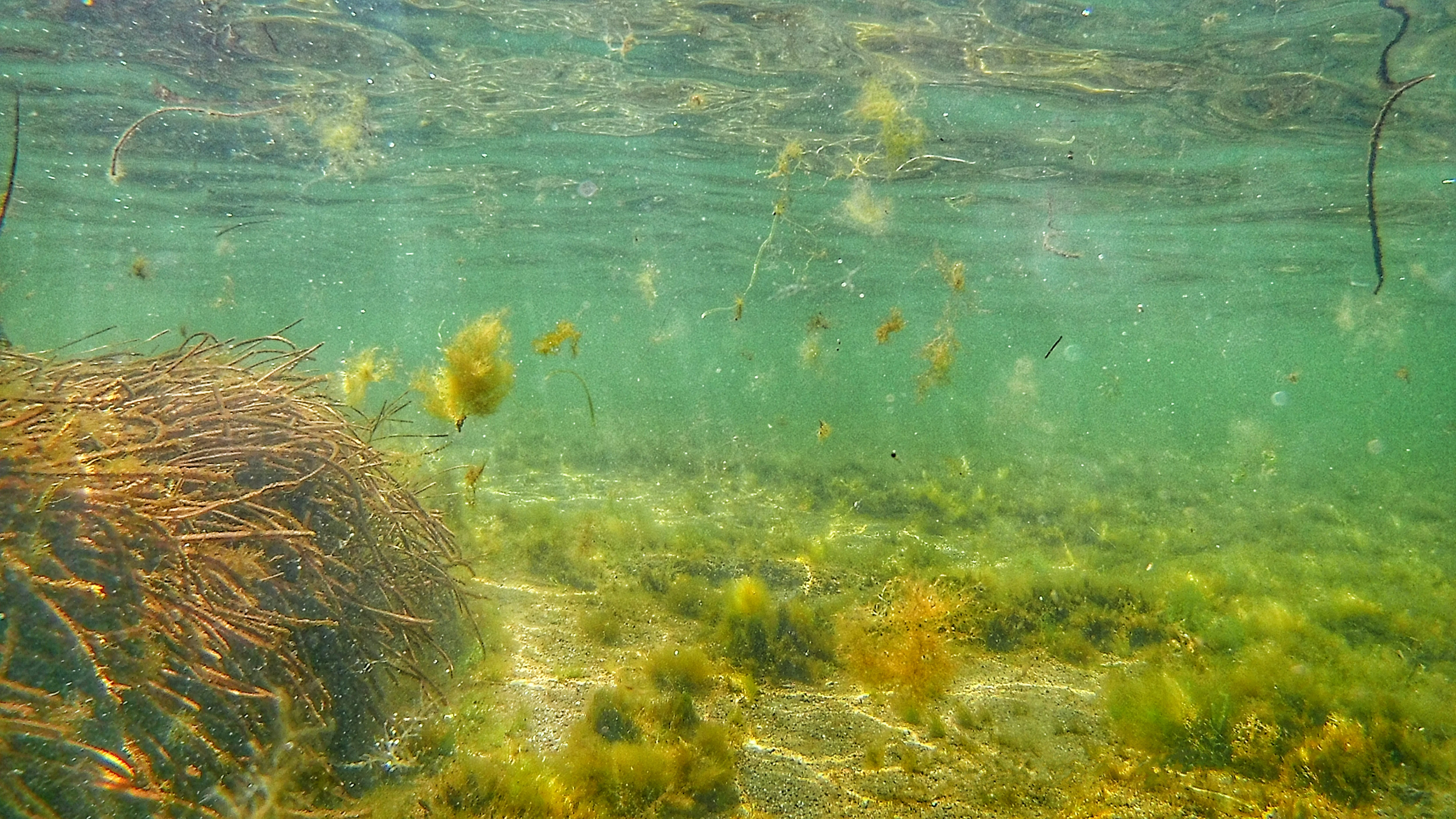 Undewater world of Tiligul estuary